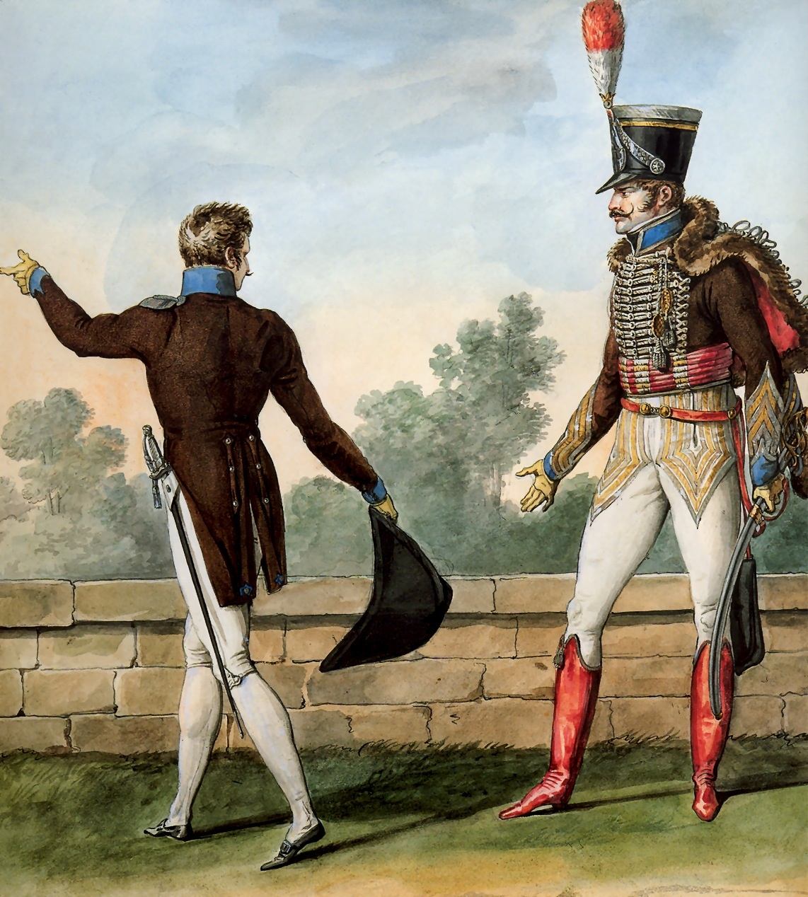 Part of a series chronicling the uniforms of Napoleon's Grande Armée.